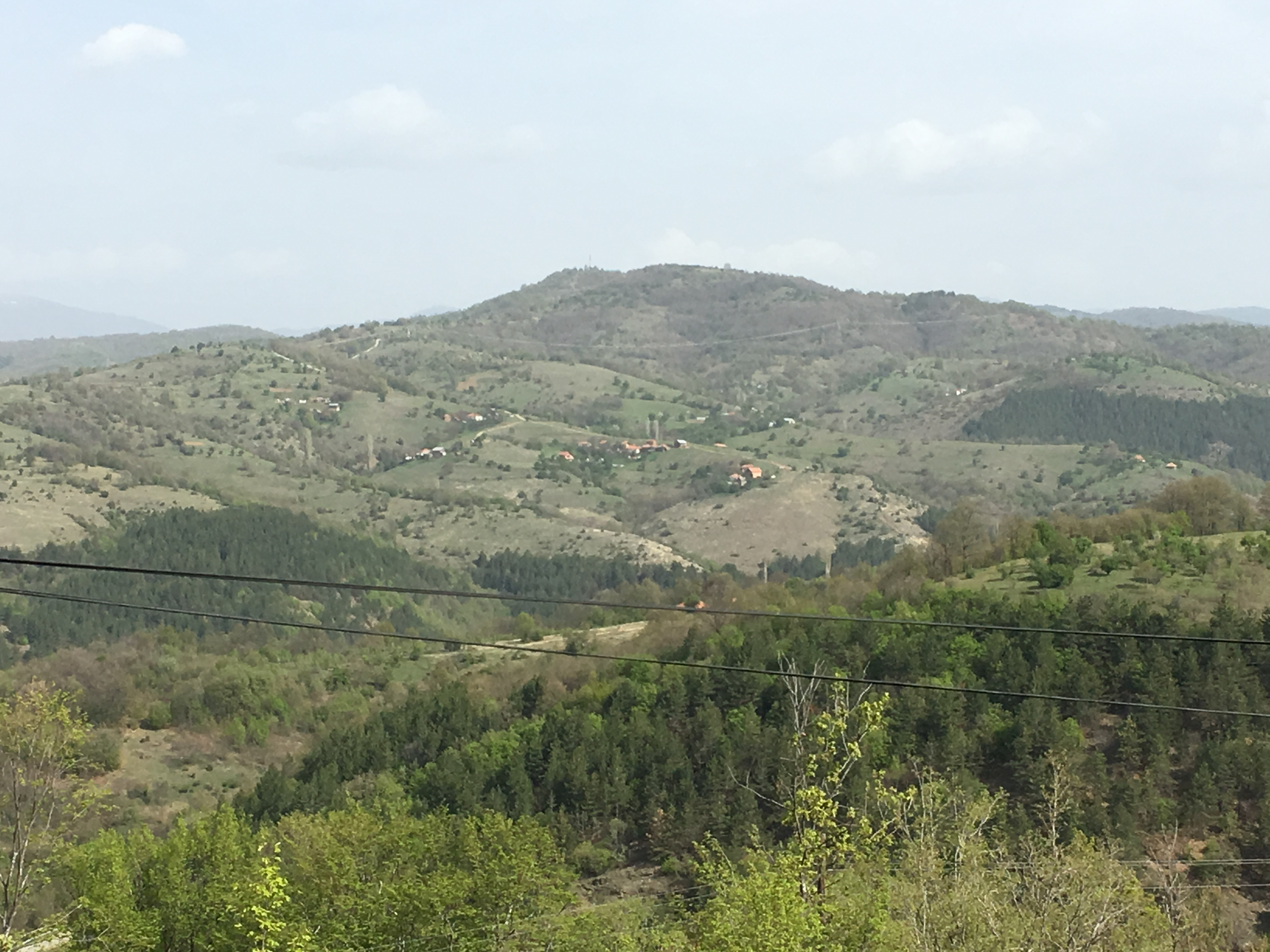 A view of the village of Varovište